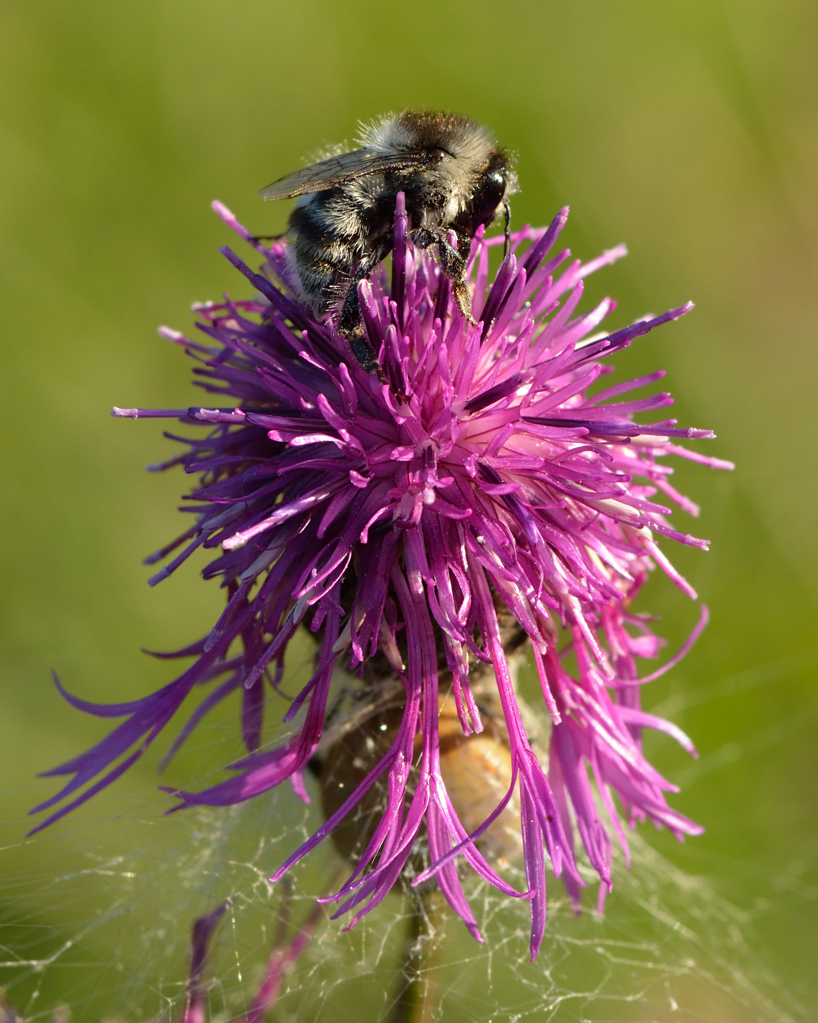 Sand bumblebee (Bombus veteranus) on the greater knapweed (Centaurea scabiosa). Keila, Northwestern Estonia.